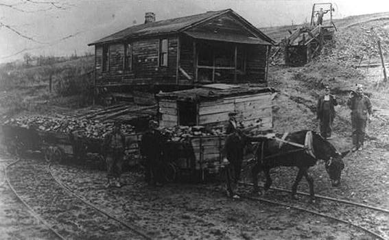 Lick Run, Pa. men hauling coal from their own mines.